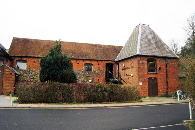 Farnham Maltings, Bridge Square, Farnham, Surrey